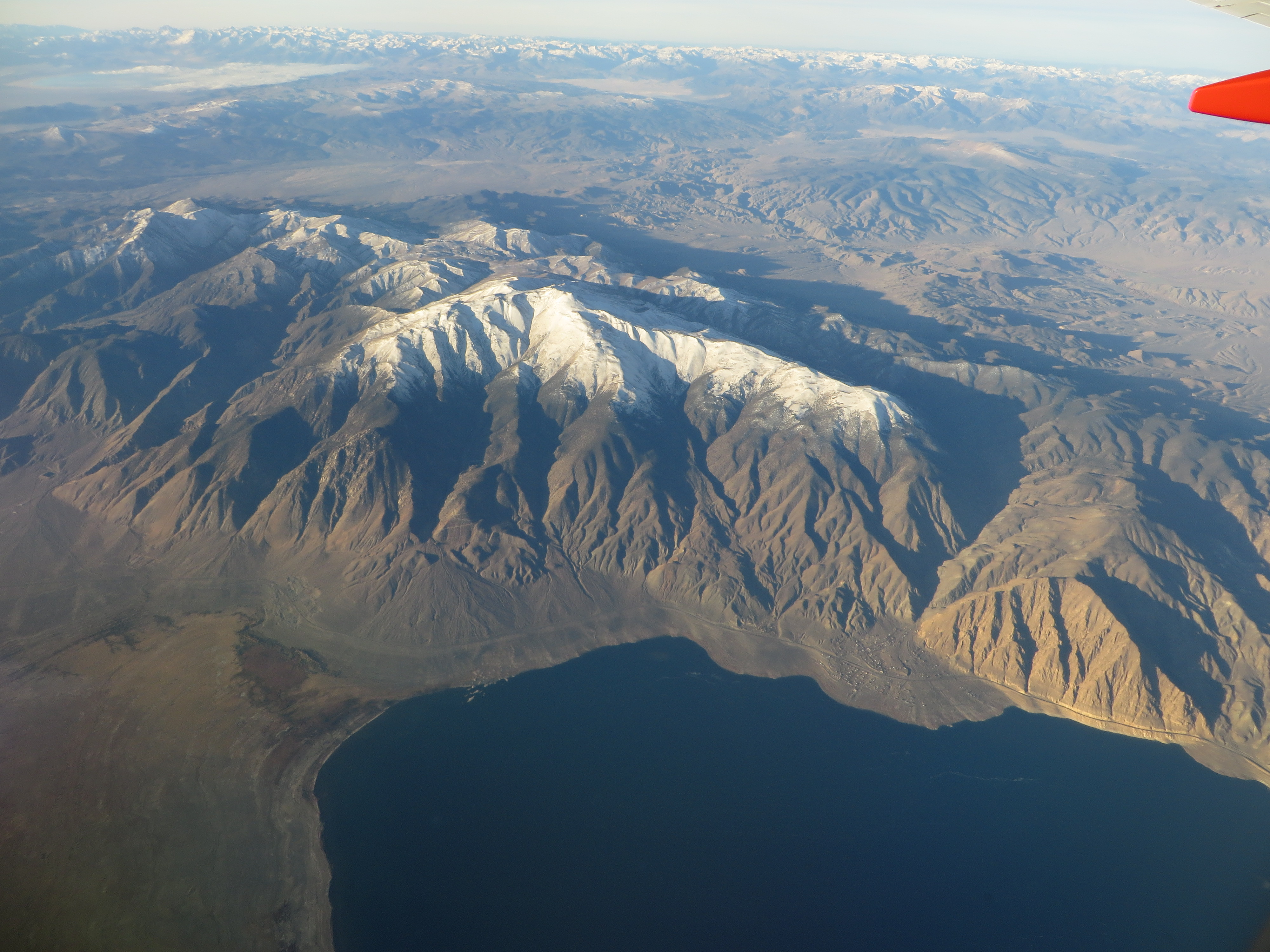 Walker Lake is a natural lake, 50.3 mi² (130 km²) in area, in the Great Basin in western Nevada in the United States. It is 18 mi (29 km) long and 7 mi (11 km) wide, located in northwestern Mineral County along the eastern side of the Wassuk Range, approximately 75 mi (120 km) southeast of Reno. The lake is fed from the north by the Walker River and has no natural outlet except absorption and evaporation. Walker Lake is the namesake of the geological trough in which it sits, and which extends from Oregon to Death Valley and beyond, the Walker Lane. In the 19th century the area around the lake was inhabited by the Paiute. Extensive use of the water of the Walker River and its tributaries for irrigation since the late 19th century has resulted in a severe drop in the level of the lake. According the USGS, the level dropped approximately 140 ft (40 m) between 1882 and 1994. The lower level of the lake has resulted in a higher concentration of stream pollutants. As of 2004 the salt concentration is above the lethal limit for most of the native fish species throughout much of the lake, and the survival of the Lahontan cutthroat trout in the lake will be threatened if inflow is not drastically increased. Also affected are the lake's Tui chub. In 2009, the town of Hawthorne canceled its Loon Festival because the lake, once a major stopover point for migratory loons, could no longer provide enough chub and other small fish to attract many loons. The Walker Lake State Recreation Area is located along the western shore of the lake. The Hawthorne Army Depot, which claims to be the world's largest ammunition depot, fills the valley to the south of the lake. U.S. Route 95 passes along the western shore of Walker Lake.